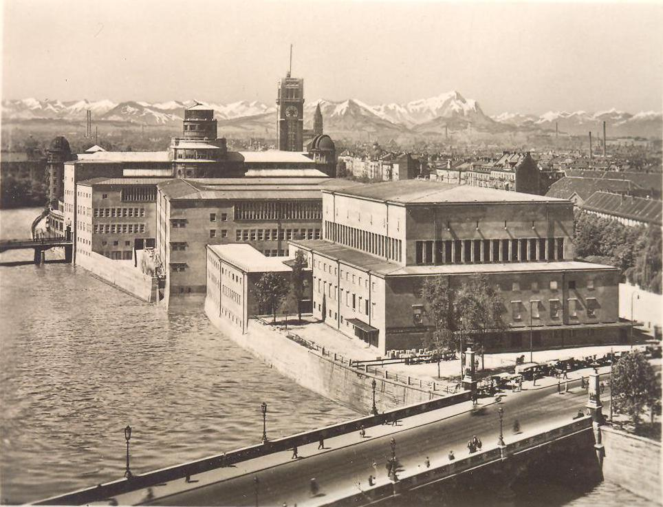 Deutsches Museum